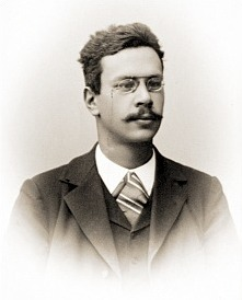 Historical photo of Sven Grenander